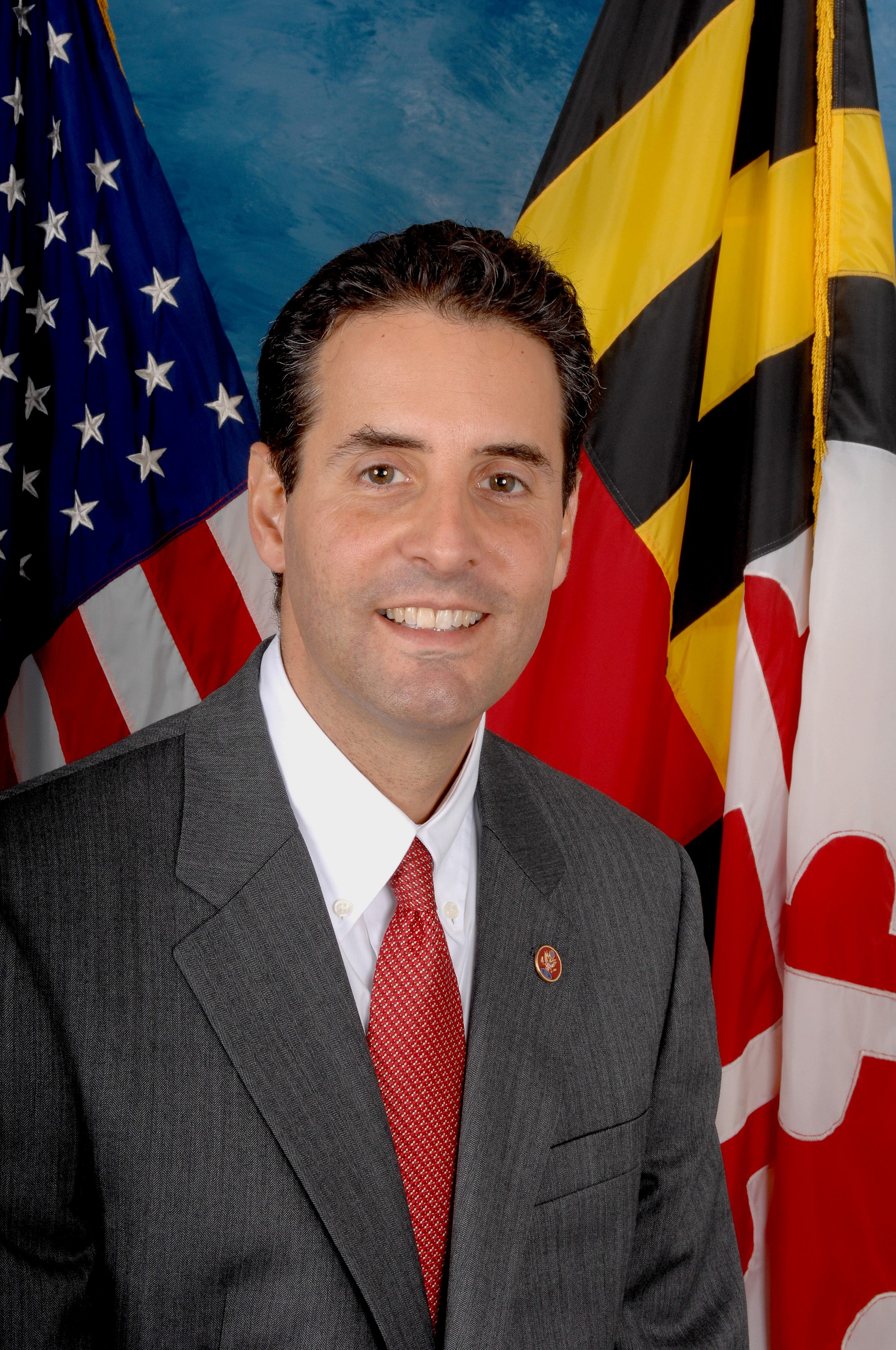 John Sarbanes, member of the United States House of Representatives.